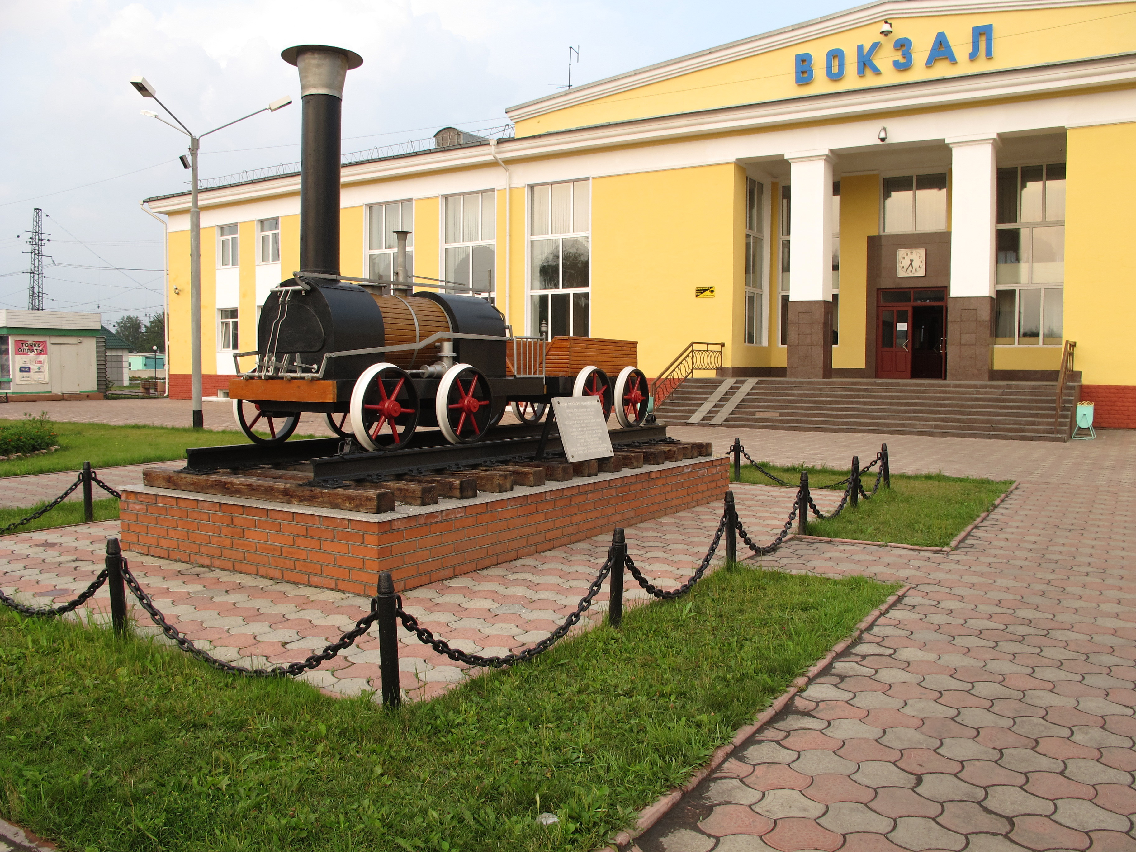 Railway station in Belovo Kemerovo region